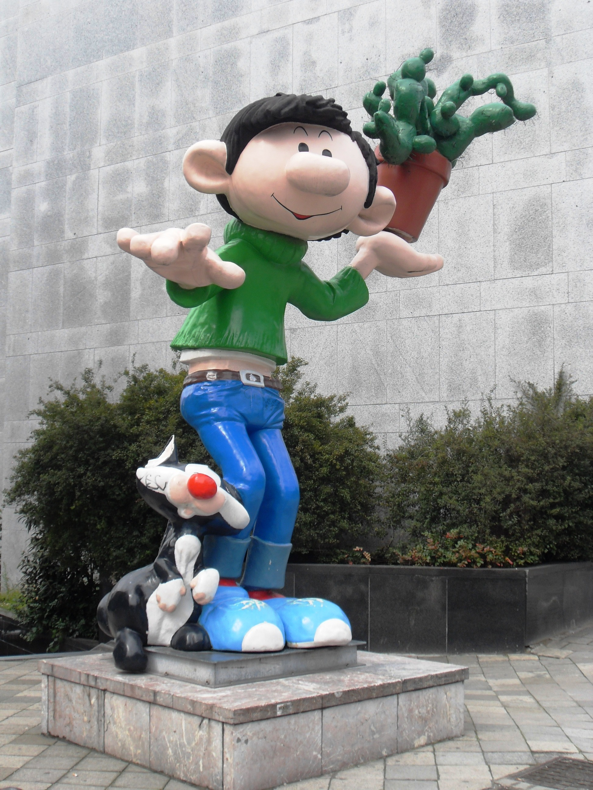 Gaston statue. Location: Boulevard Pachéco / Rue des Sables, Brussels. If you descend the stairs, you arrive to the Centre belge de la bande dessinée, or Museum of the BD. Gaston is a comic strip created in 1957 by the Belgian cartoonist André Franquin in the comic strip magazine, Spirou. The series focuses on the every-day life of Gaston Lagaffe, a lazy and accident-prone (his surname means "the blunder") office junior.